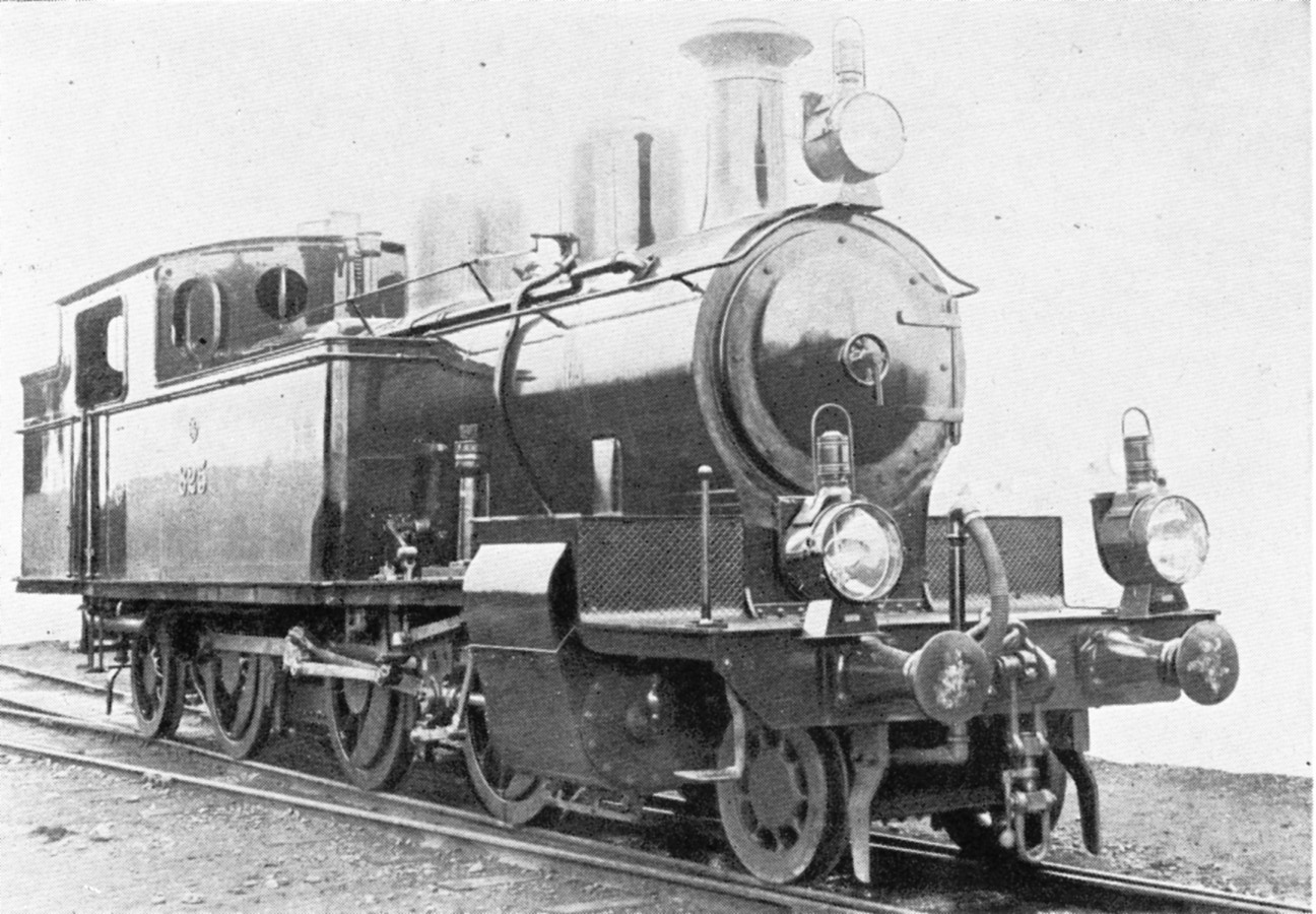 Japan Government Railway type 3170 steam locomotive